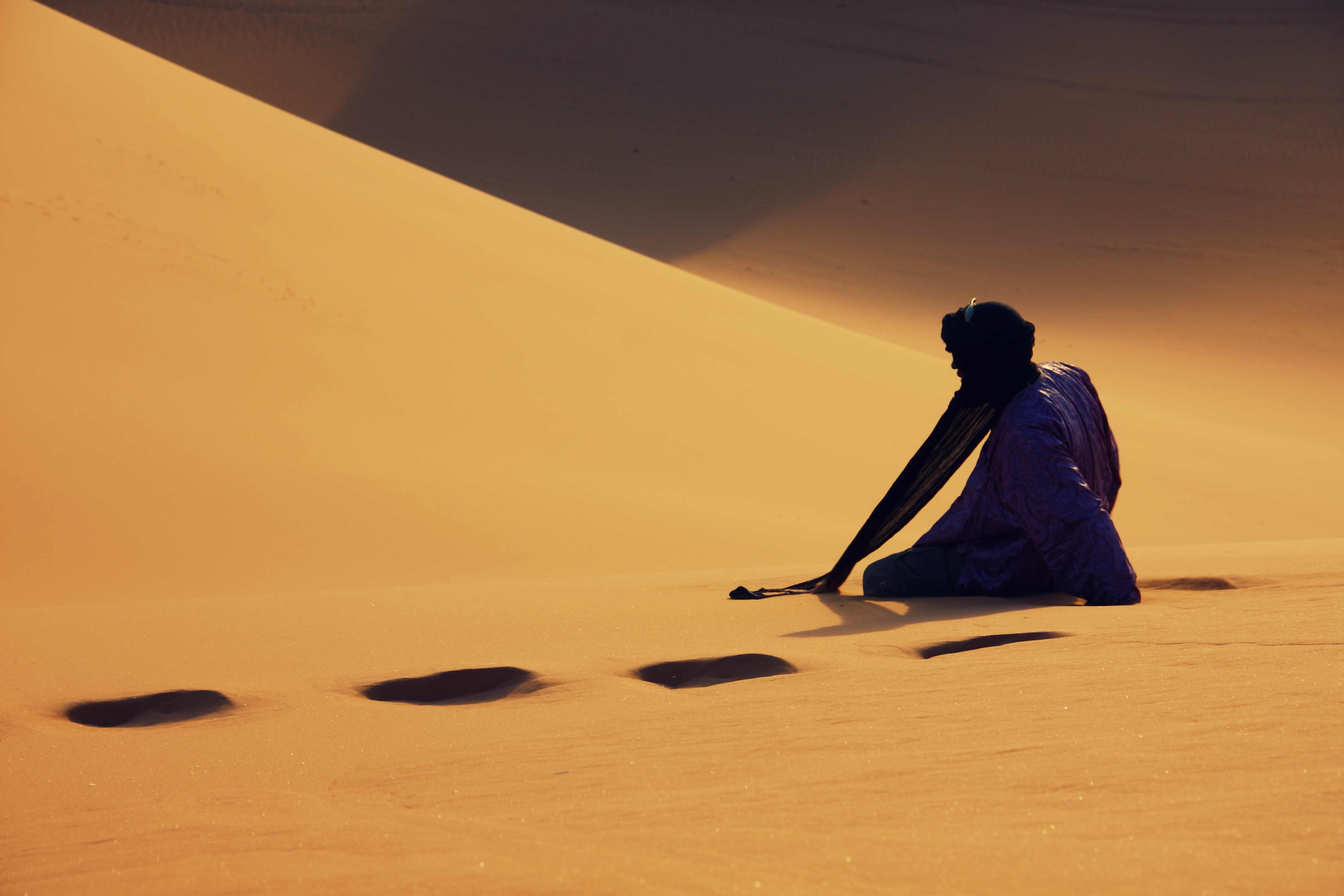 Tuareg on the dune of Timerzouga, place named Tadrart in the town of Djanet, wilaya of Ilizi 20km from the Algerian-Libyan border (Cultural Park of Tassili).